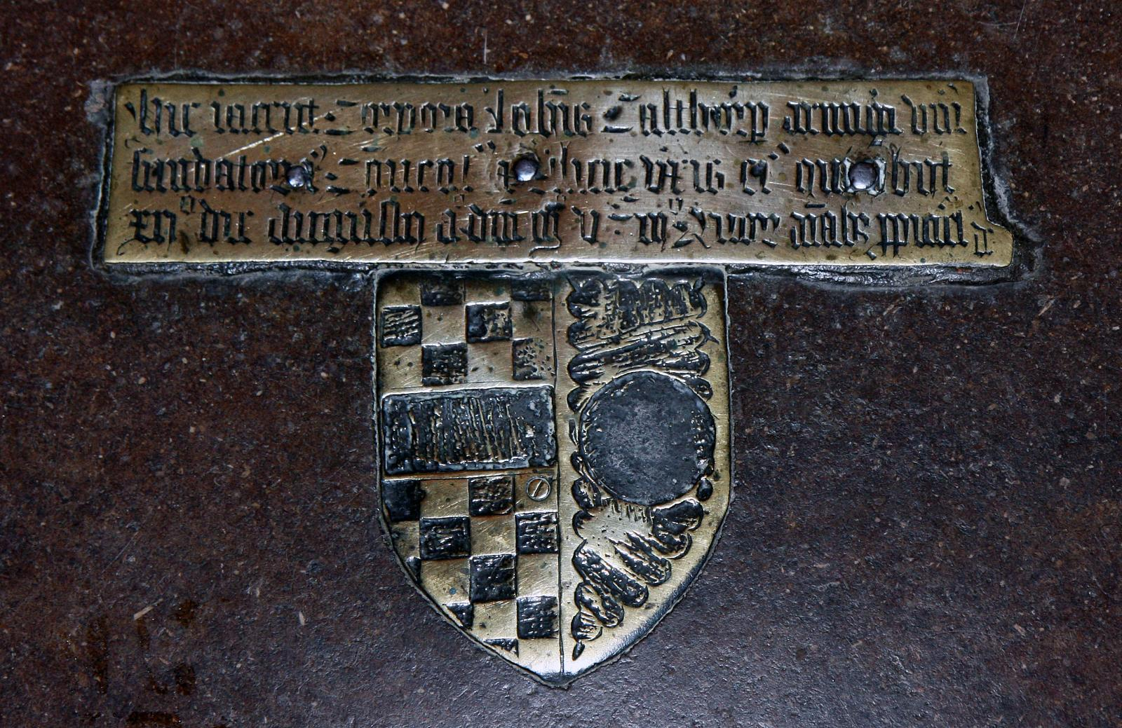 Brass with shield to John Calthorp at St Nicholas Church, Blakeney, Norfolk, England. Latin inscription: Hic jacent corpora Johannis Calthorp, armigeri, unii fundatores conventi et Aliciae uxoris ei qui obiit xii die Augustii A(nn)o Dom(ini) MVCIII cuius animae propitietur deus ("here lie the bodies (sic) of John Calthorp, Esquire, one of the founders of the convent and of Alice his wife who died on the 12th day of August in the year of our lord the 1503rd on the soul of whom may god look with favour"). Arms: Chequy or and azure, a fess ermine (Calthorp) impaling A roundel within a bordure engrailed (his wife). According to Farrer, Rev. Edmund, "The church heraldry of Norfolk: a description of all coats of arms on brasses, monuments, slabs, hatchments, &c., now to be found in the county. Illustrated. With references to Blomefield's History of Norfolk and Burke's Armory. Together with notes from the inscriptions attached" , Vol.2, Norwich, 1889,p.375[1][2]: "I. Chequy, a fesse (Calthorpe, Chequy or and azure, a fesse ermine) ; impaling, A roundel, within a bordure engrailed {Astley, Azure, a cinquefoil ermine ; a bordure engrailed. The cinquefoil must have been enamelled on a roundel, which has come away from the brass, leaving only the latter charge.) "Hie jacent corpora Johis Calthorp, armigr., uni fundatorm Coue ? et Aliciae ux(or)is ei., qui obiit xii die Augusti, A. Dni. mv*viii** Quor. aiabus ppiciet de." "John Calthorpe, son and heir of Bichard Calthorpe and his wife Margaret, daughter of William, first sister and heir of John Irmingland, married Alice, daughter of John Astley, Esq., of Melton Constable."— 5/. Norf, ix. 216." "